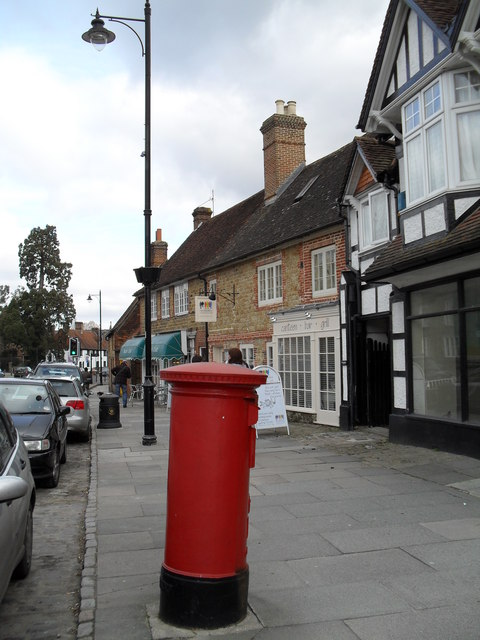 Postbox in North Street